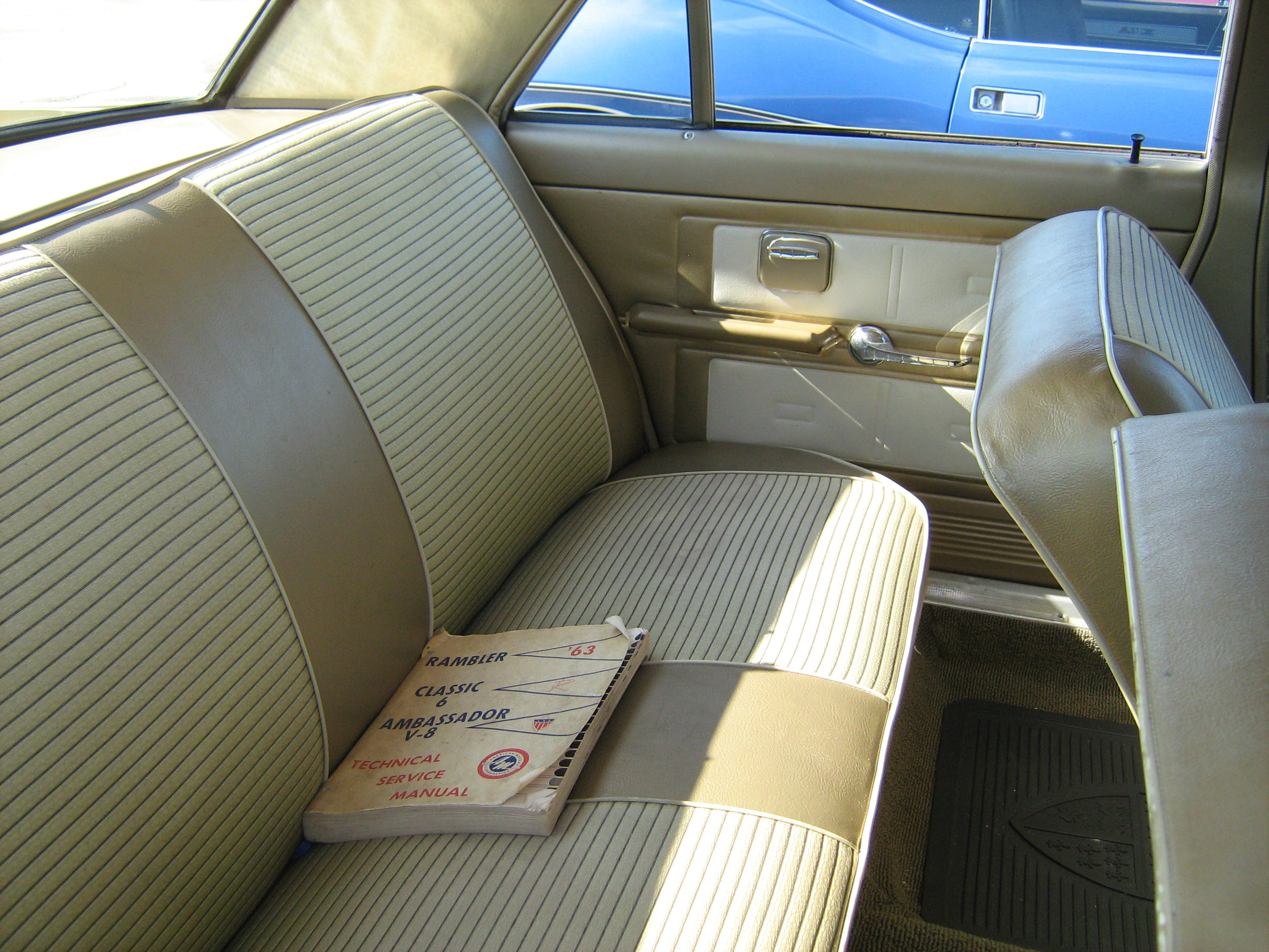 Interior rear passenger seating area of a 1963 Rambler Ambassador 880 (this was the lowest trim model in the line) four-door sedan. Built by American Motors Corporation (AMC) and finished in gold with white top. Photographed in Kenosha, Wisconsin, USA.